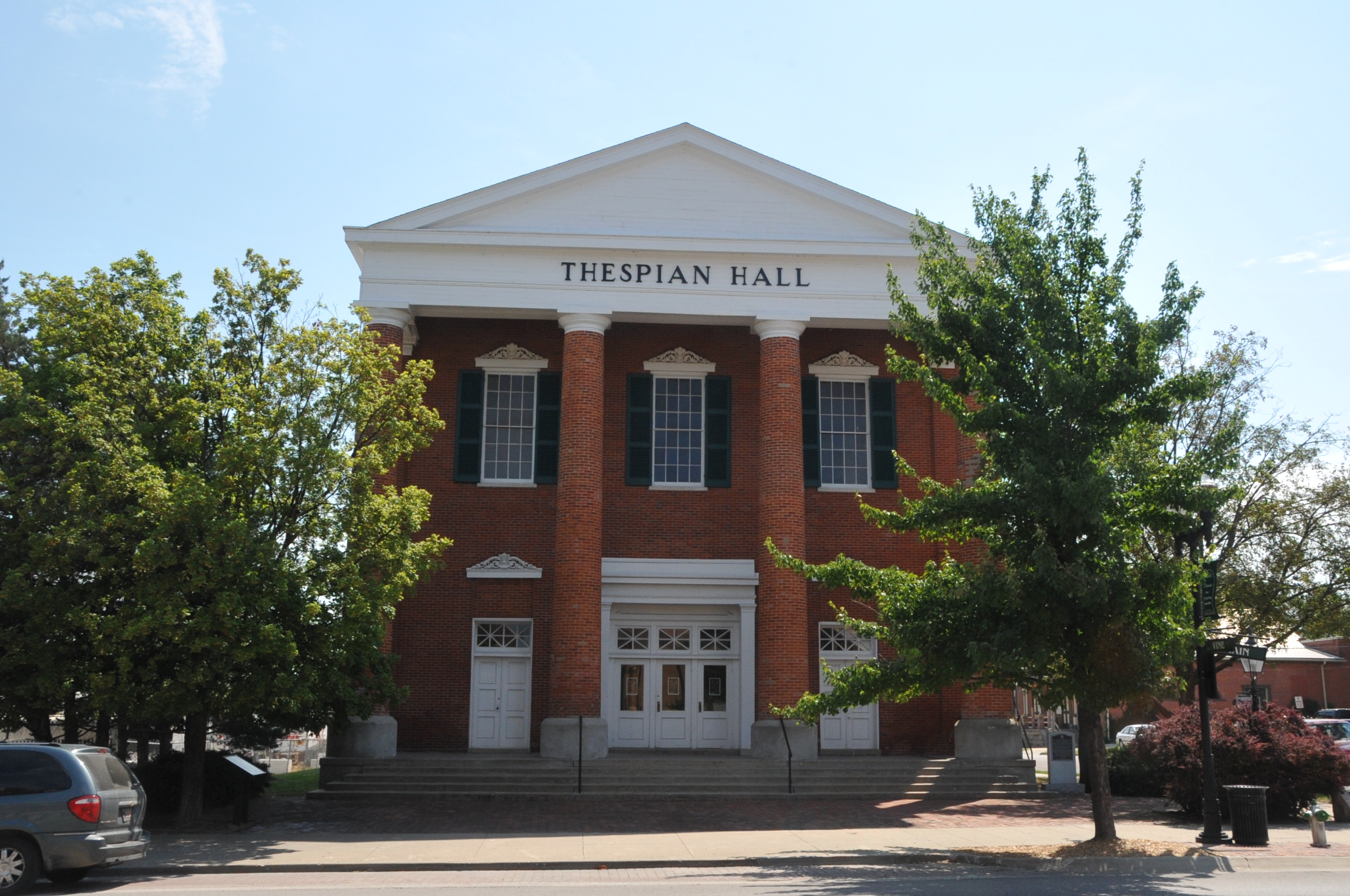 GREEK REVIVAL THESPIAN HALL, AKA LYRIC THEATER, WAS BUILT CIRCA 1856. IT HAS BEEN USED AS AN OPERA HOUSE, DRAMA STAGE, LODGE OFFICES, TURNVEREIN, SKATING RINK, AND FINALLY A MOVIE THEATER. DURING THE CIVIL WAR BOTH SIDES USED IT AS A HOSPITAL AND BARRACKS